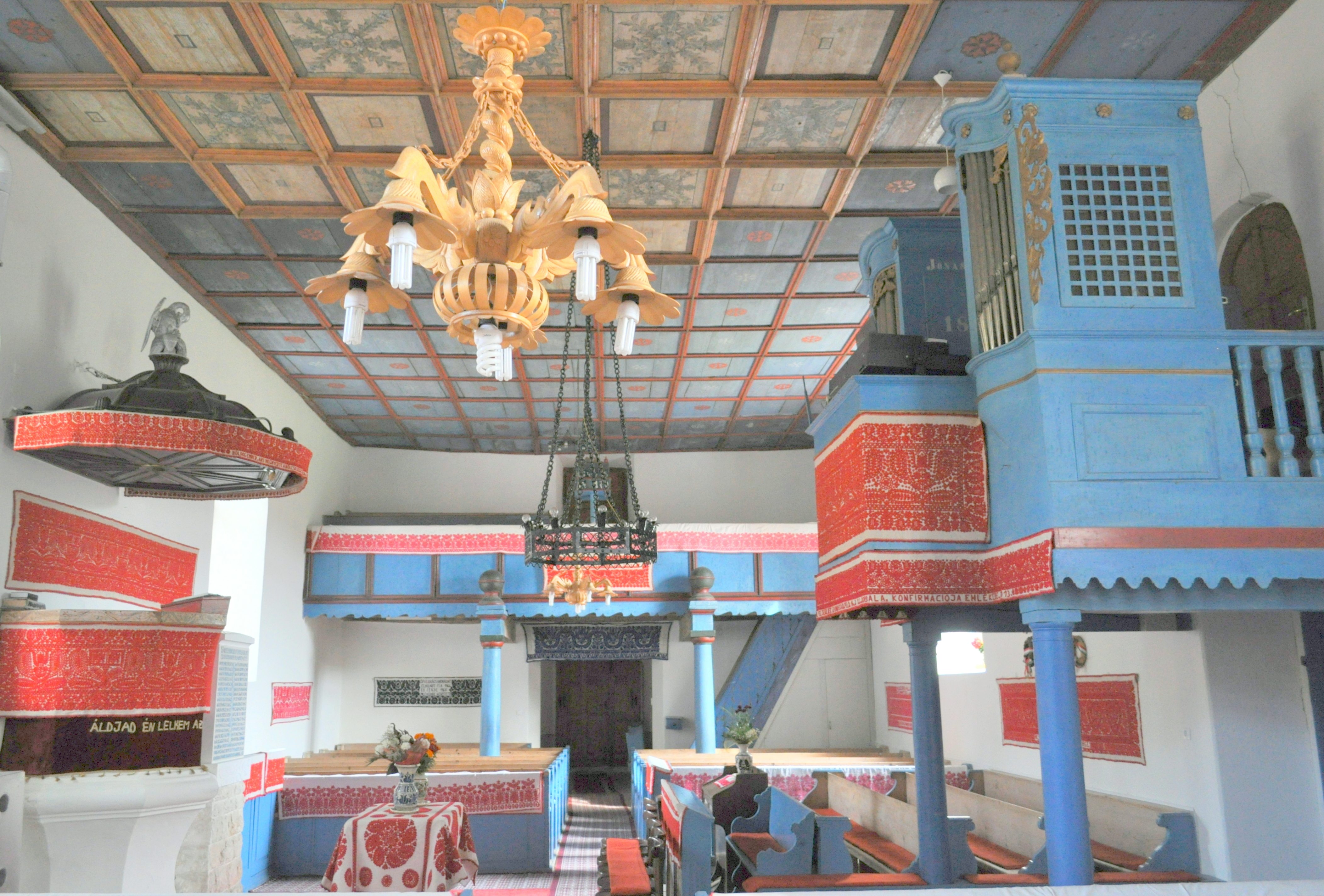 Reformed church in Căpușu Mare, Cluj County, Romania